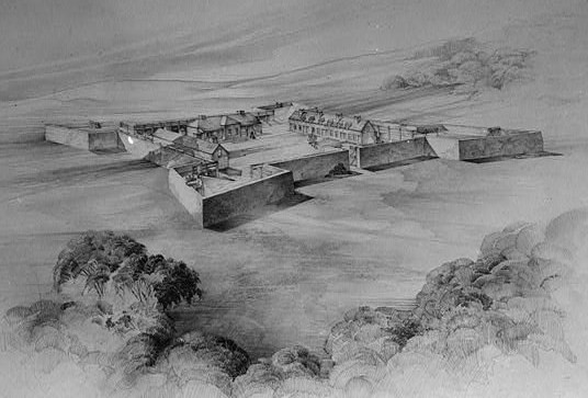 Fort Frederick, Hagerstown vicinity (Washington County, Maryland) (cropped)